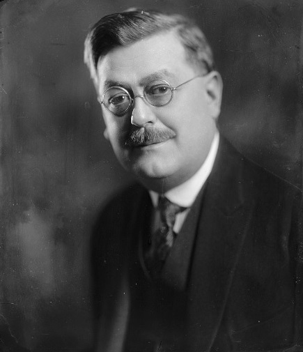 Harris J. Bixler (Pennsylvania Congressman)